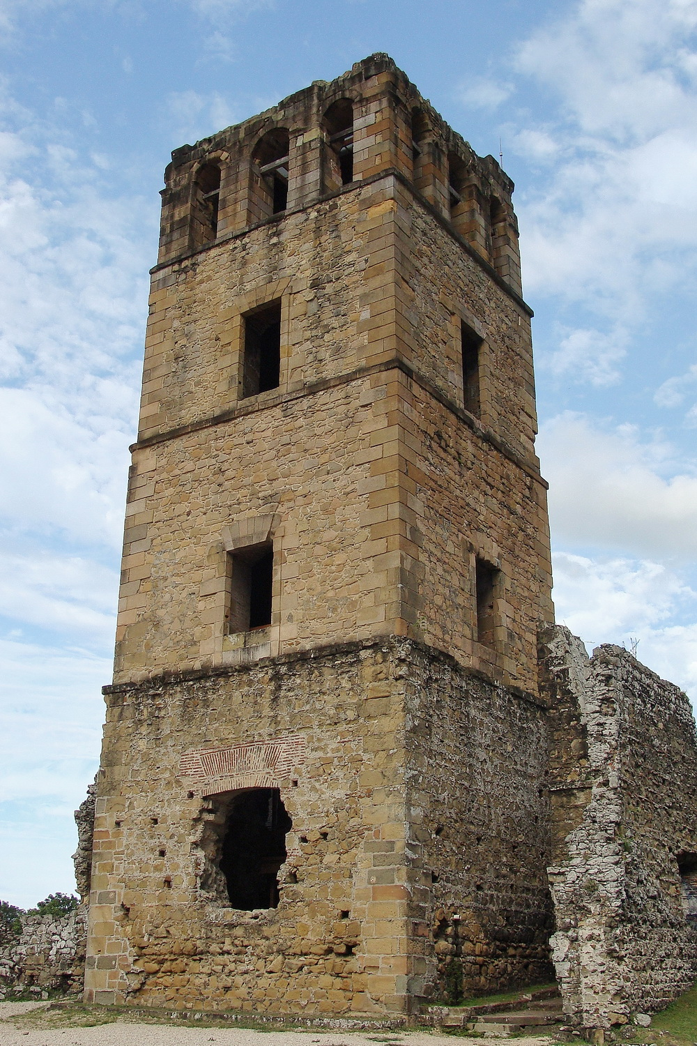 Ruins of Our Lady of Asuncion Cathedral (built 1610–1626) in Panamá Viejo.